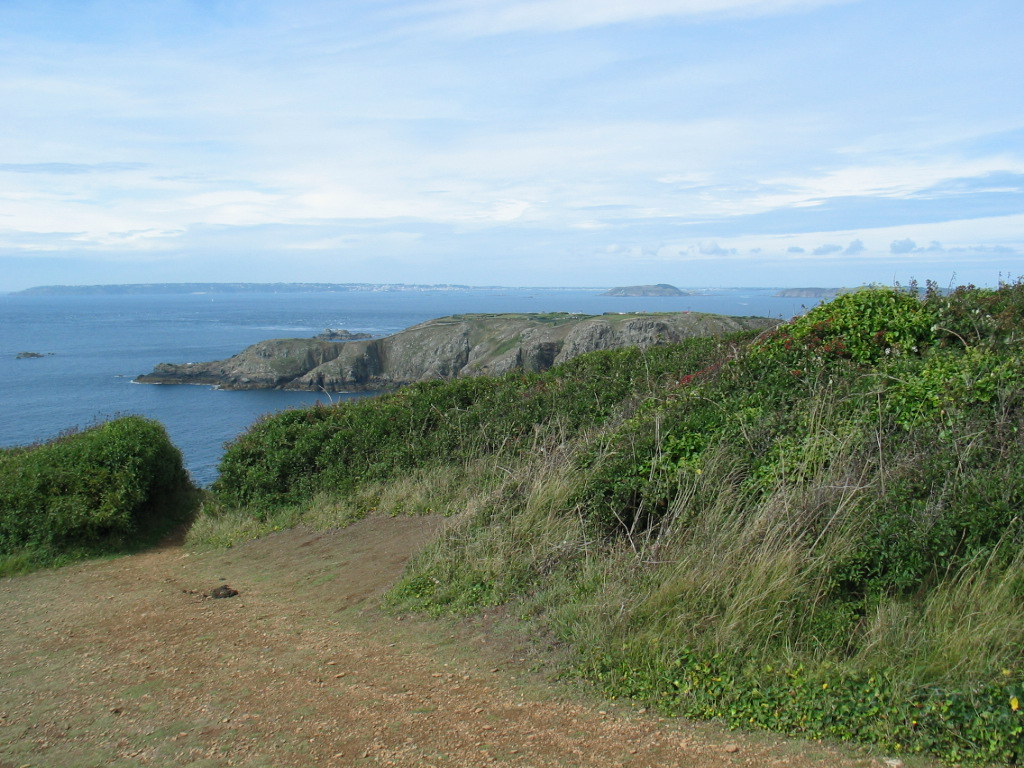 Coast of Sark